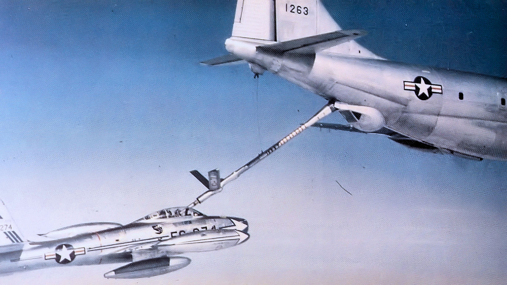 508th Strategic Fighter Wing Republic F-84G-20-RE Thunderjet 51-1274 being IFR by Boeing KC-97F-55-BO Stratofreighter 51-263, 1953